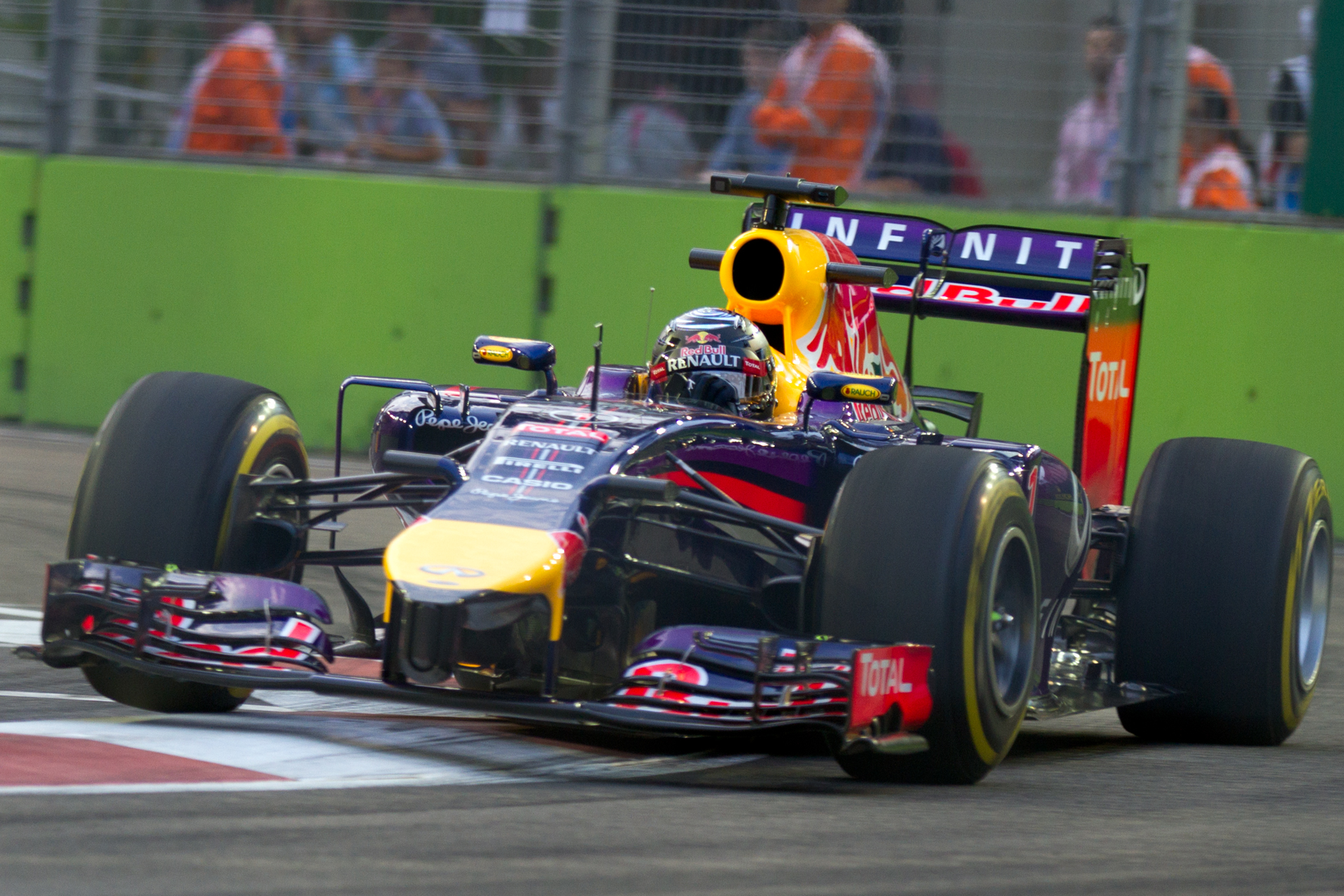 Formula One 2014 Rd.14 Singapore GP: Sebastian Vettel (Red Bull)